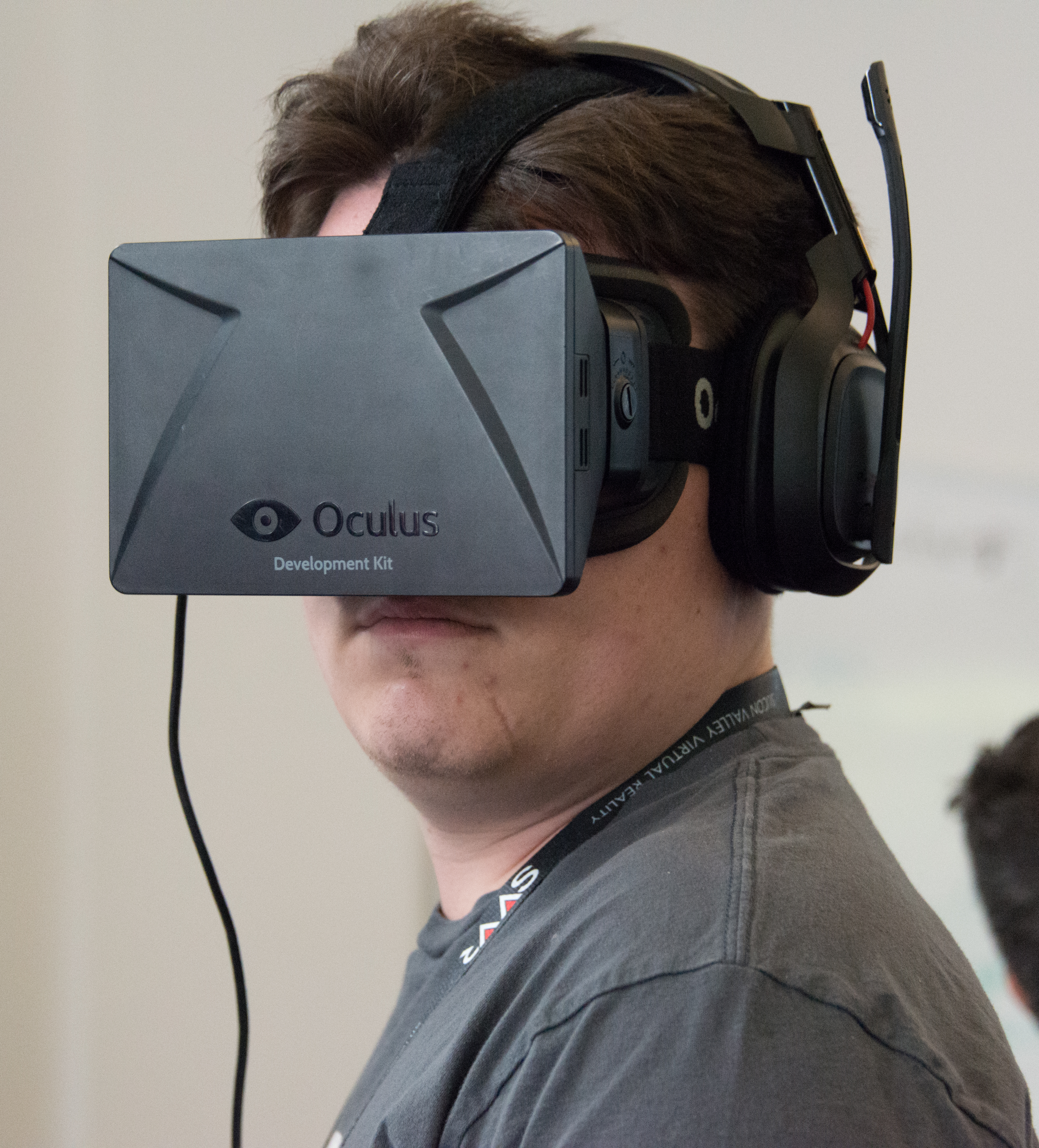 Palmer Luckey wearing an Oculus Rift DK1 (development kit 1) during an ad-hoc demo of OlivierJT's "Synthesis Universe" at SVVR 2014. The headphones are not part of the device.